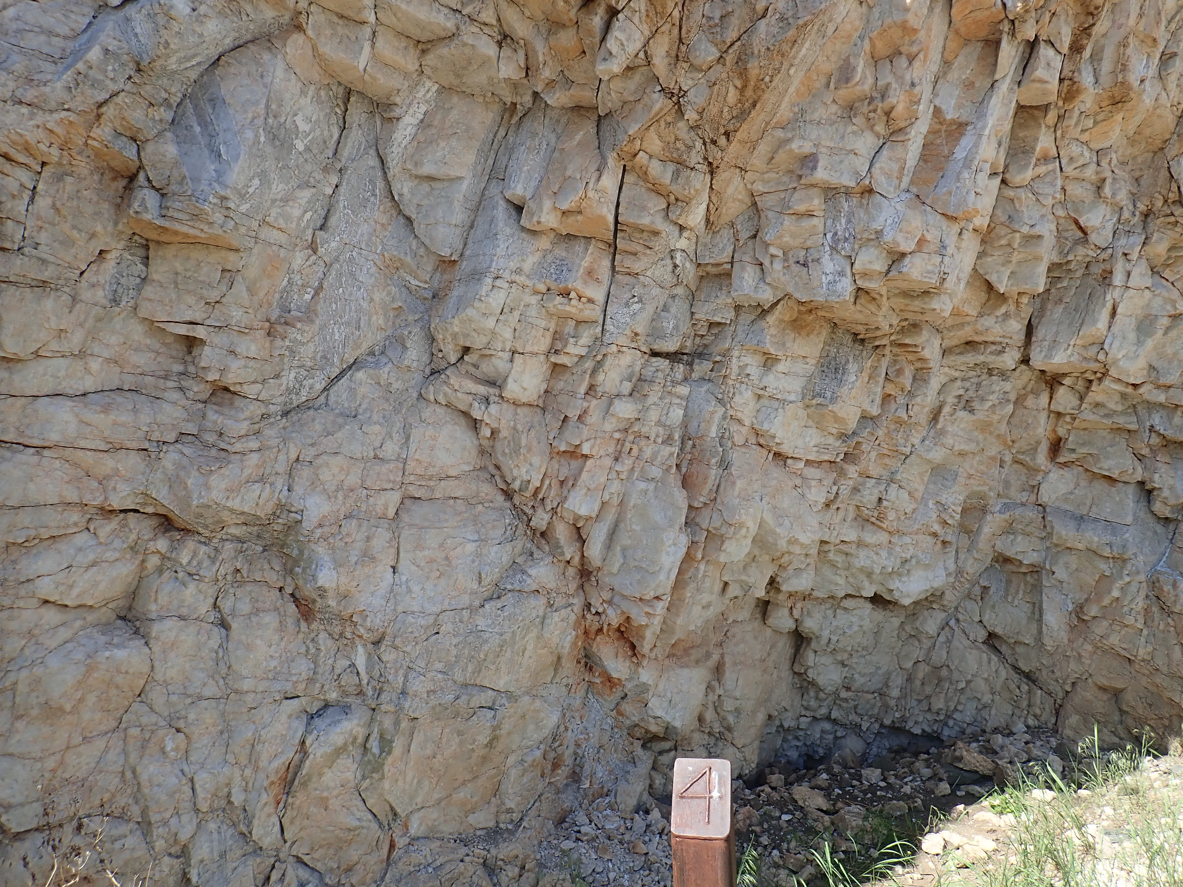 This image shows the quartz/rose muscovite zone of the Harding zoned pegmatite. This is a replacement zone where rose muscovite partially replaces spodumene and cleavelandite partially replaces quartz.